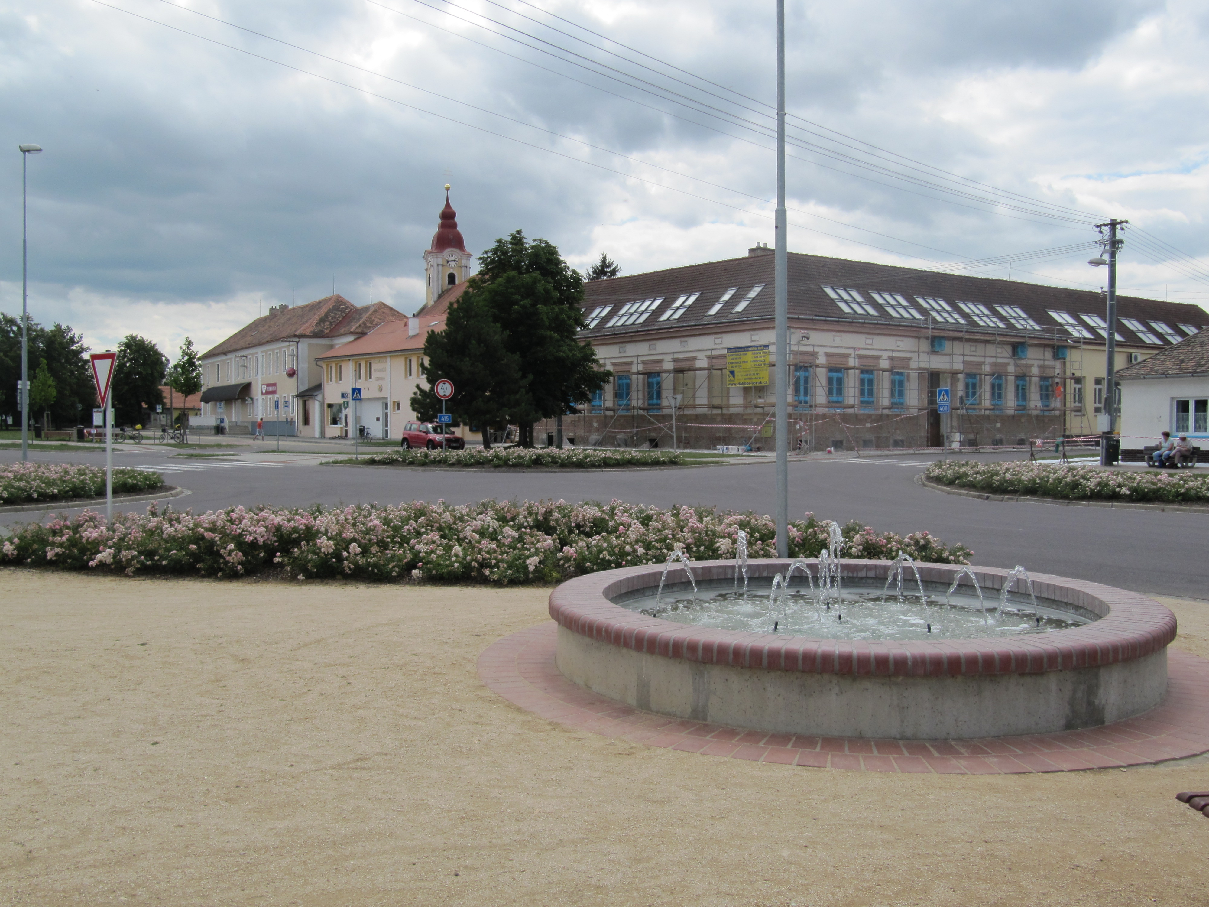 Hevlín in Znojmo District, Czech Republic. Village center.